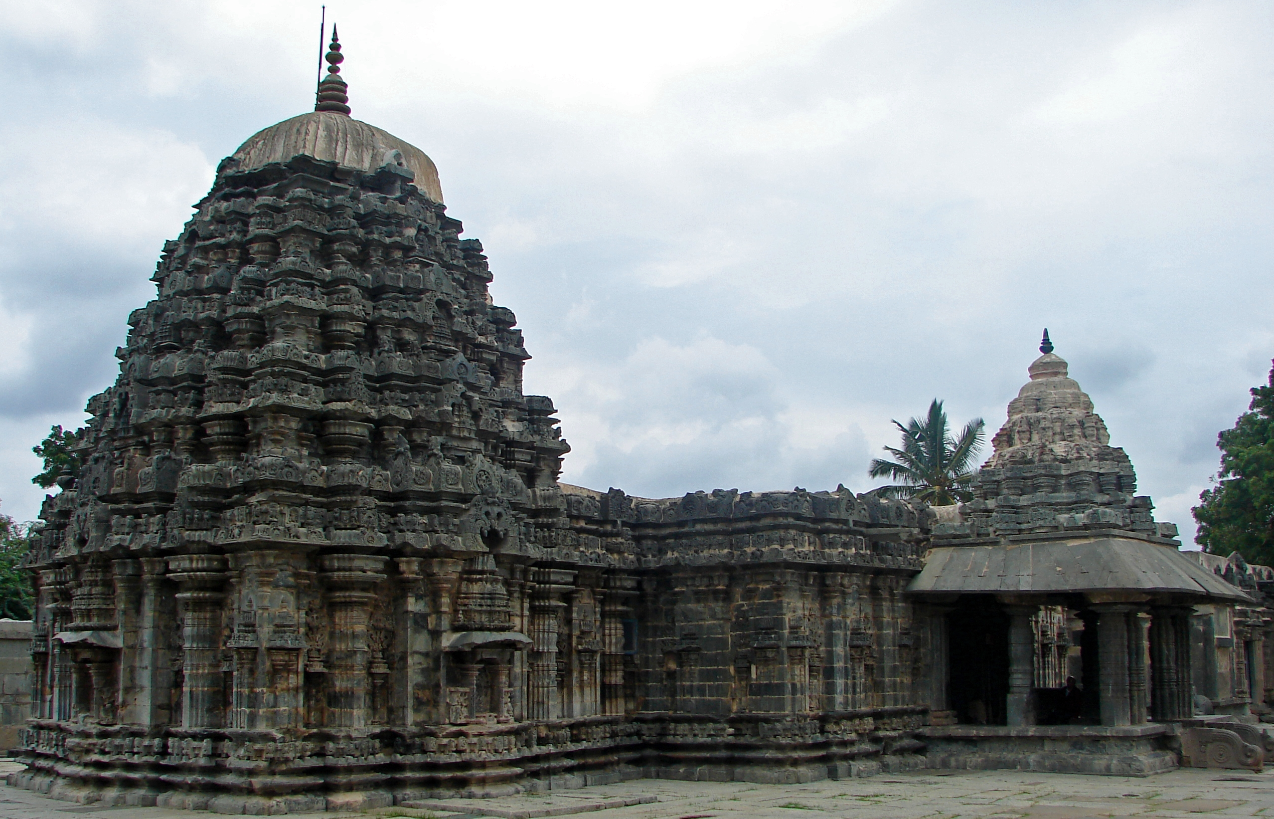 Amrtesvara Temple in Annigeri, Dharwad district, Karnataka state, India